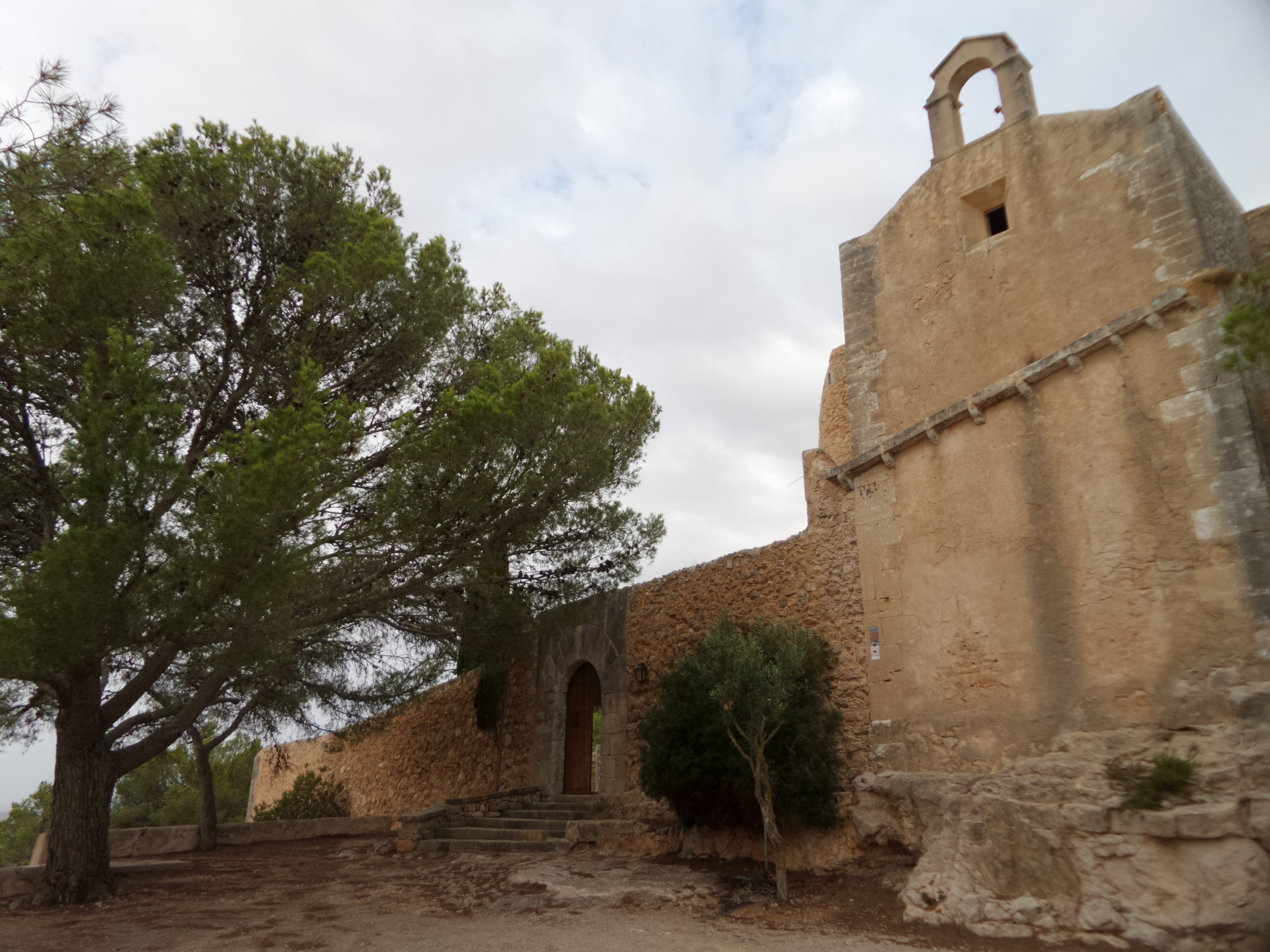 Santuari de la Consolació (Santanyí), pilgrimage church and herimitage